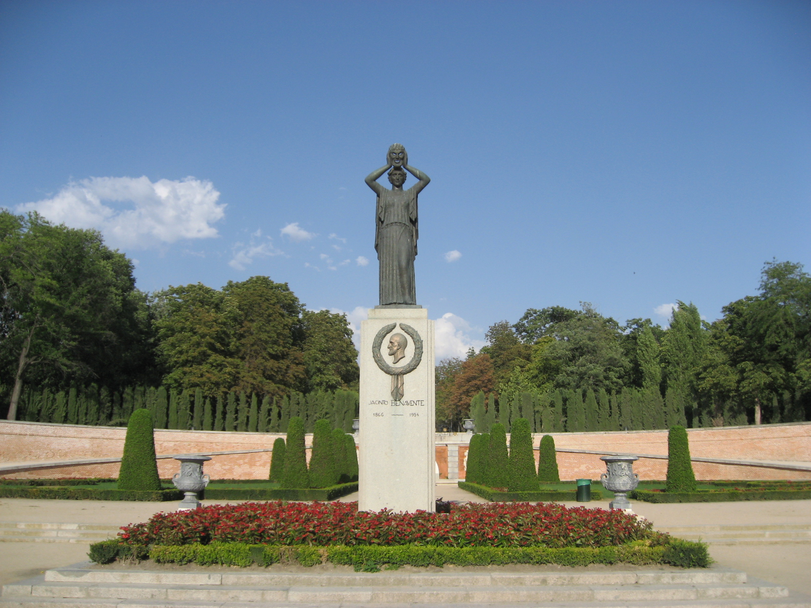 Parque del Buen Retiro